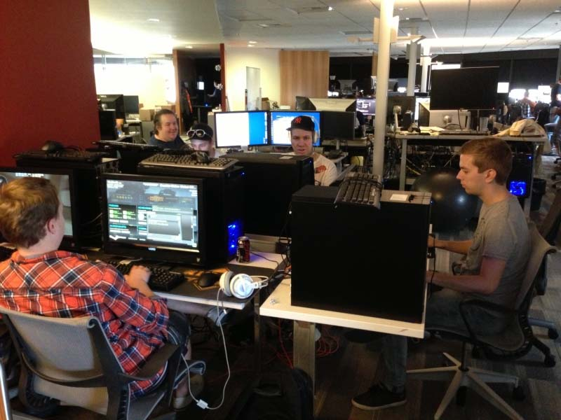 Gamers taking part in a small LAN party.